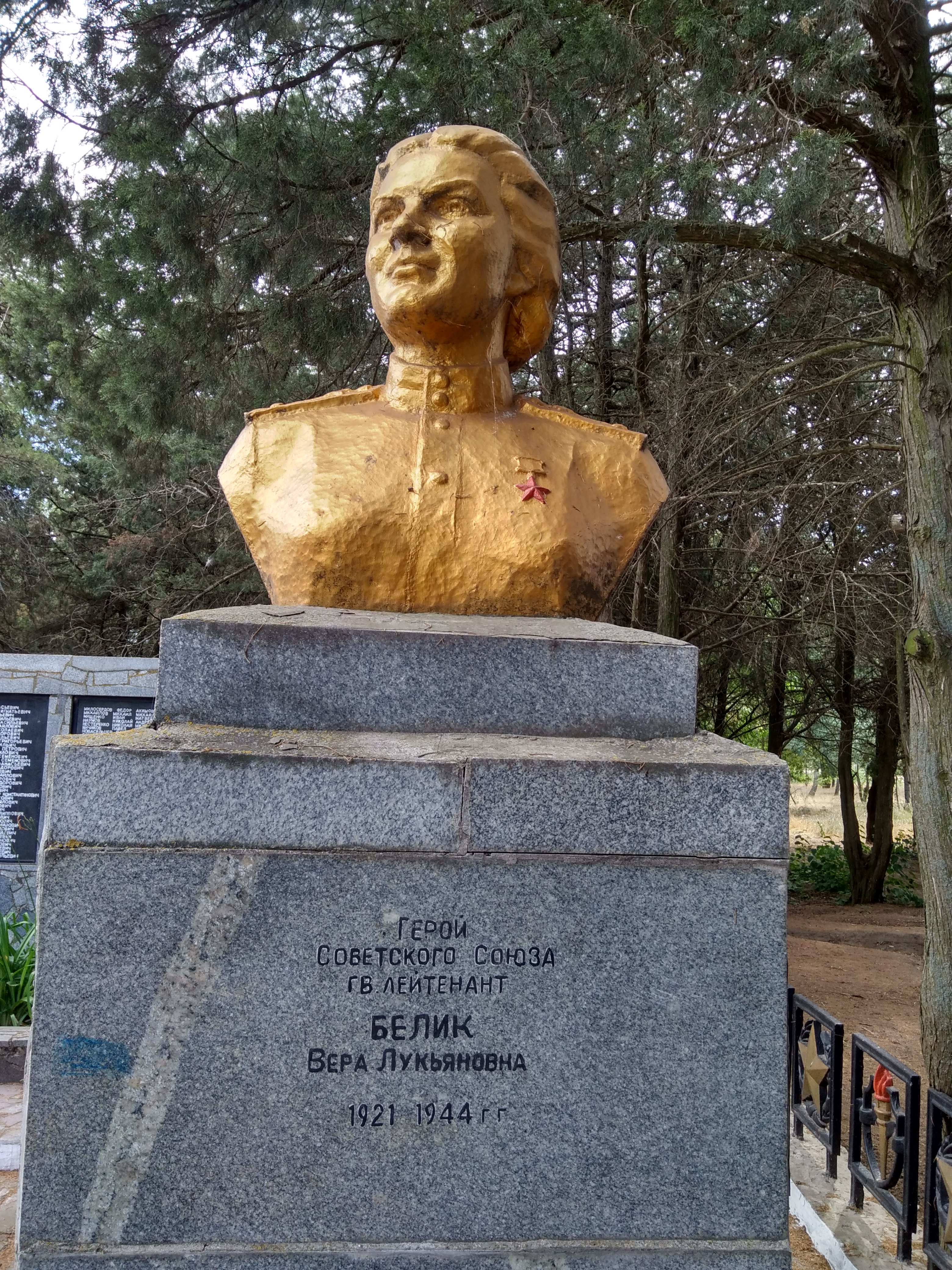 Ohrimivka, Yakymivka Raion, Zaporizhia Oblast, Ukraine. The monument to Hero of the Soviet Union Bilyk V.L.